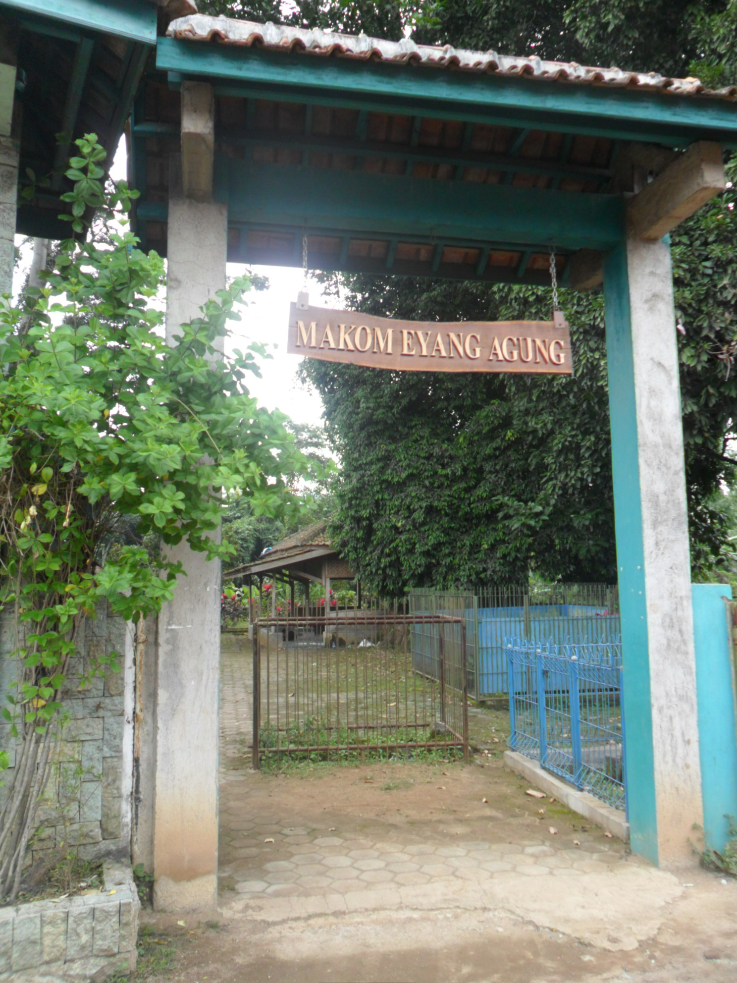 Makom Eyang Agung Kampung Mahmud, Bandung